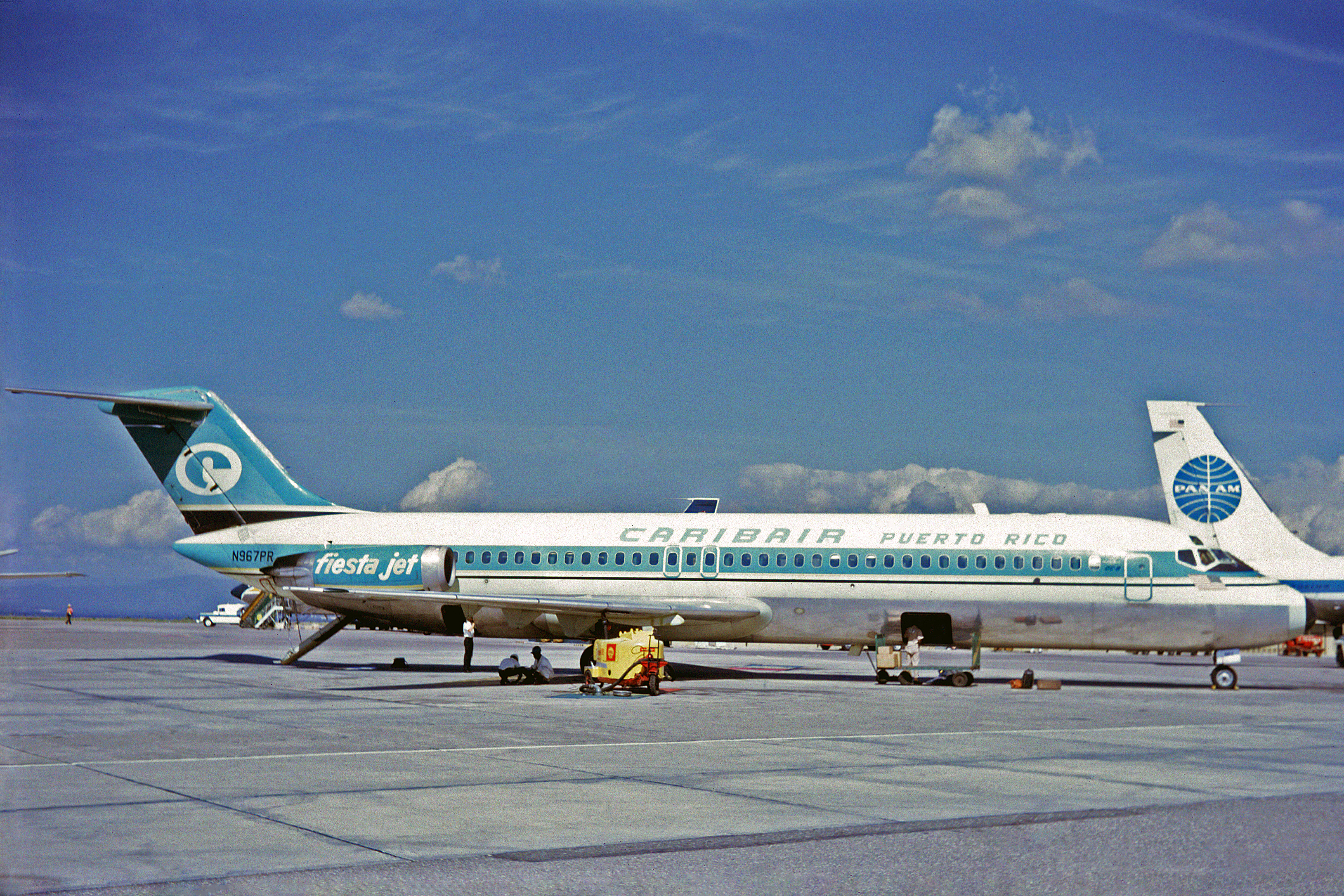 Caribair Puerto Rico Douglas DC-9-31 (N967PR) at Kingston Norman Manley International Airport